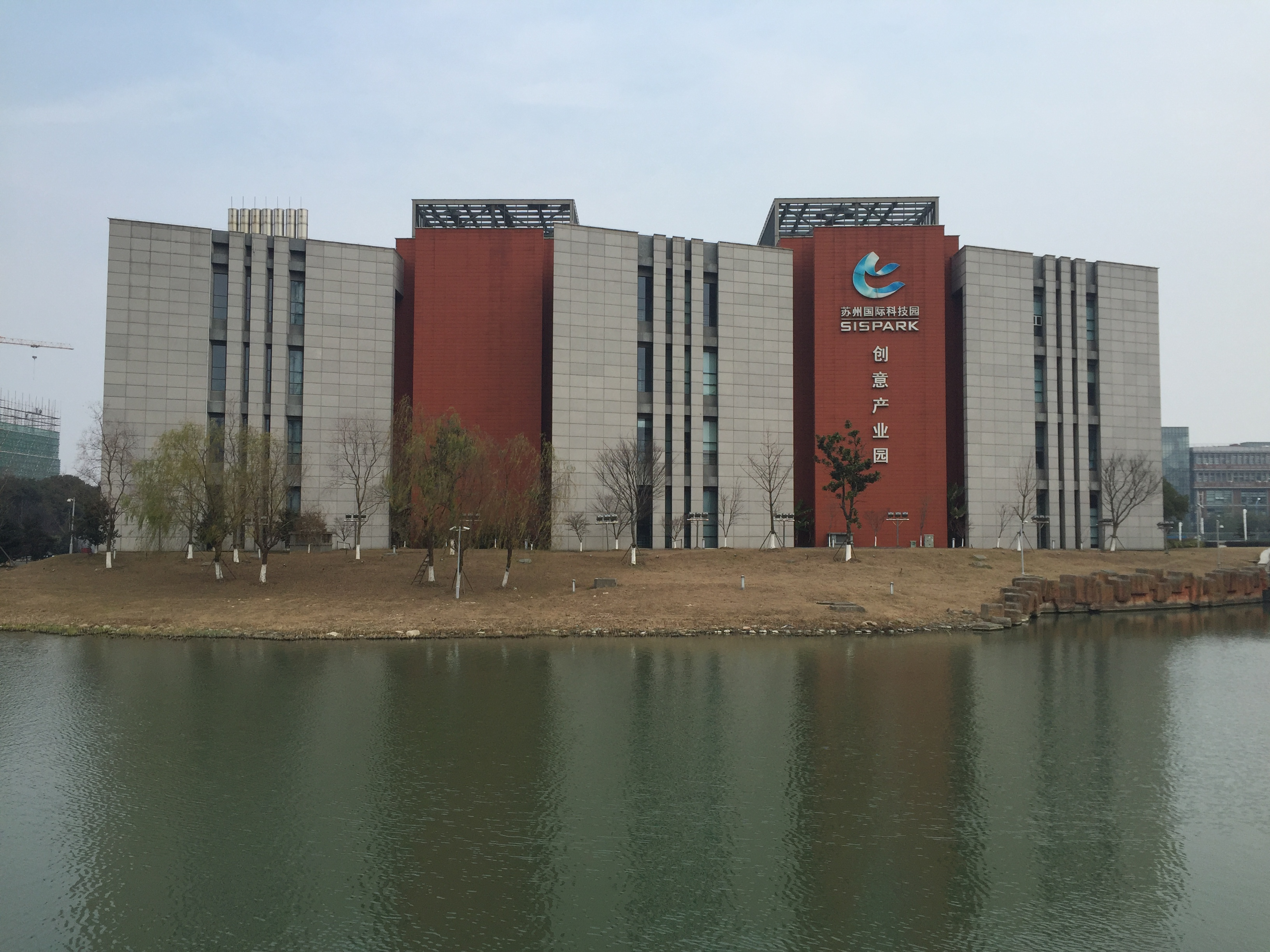 Suzhou International Science Park